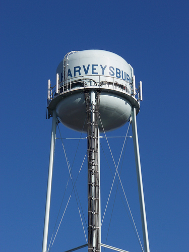 Piture of the blue water tower in Harveysburg, Ohio